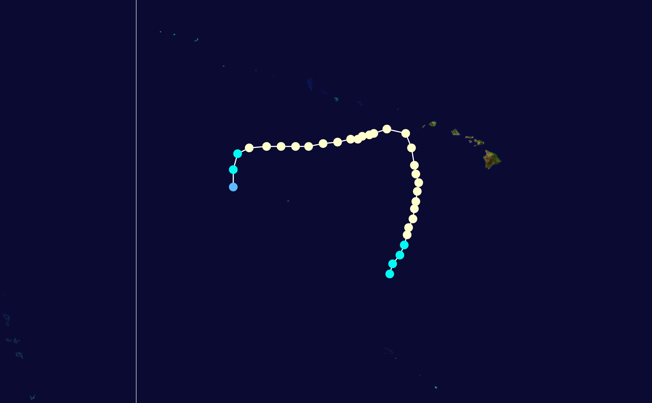 Track map of Hurricane Nina of the 1957 Pacific hurricane season. The points show the location of the storm at 6-hour intervals. The colour represents the storm's maximum sustained wind speeds as classified in the Saffir–Simpson scale (see below), and the shape of the data points represent the nature of the storm, according to the legend below. Saffir–Simpson scale Tropical depression≤38 mph≤62 km/h Category 3111–129 mph178–208 km/h Tropical storm39–73 mph63–118 km/h Category 4130–156 mph209–251 km/h Category 174–95 mph119–153 km/h Category 5≥157 mph≥252 km/h Category 296–110 mph154–177 km/h Unknown Storm typeTropical cycloneSubtropical cycloneExtratropical cyclone / Remnant low / Tropical disturbance